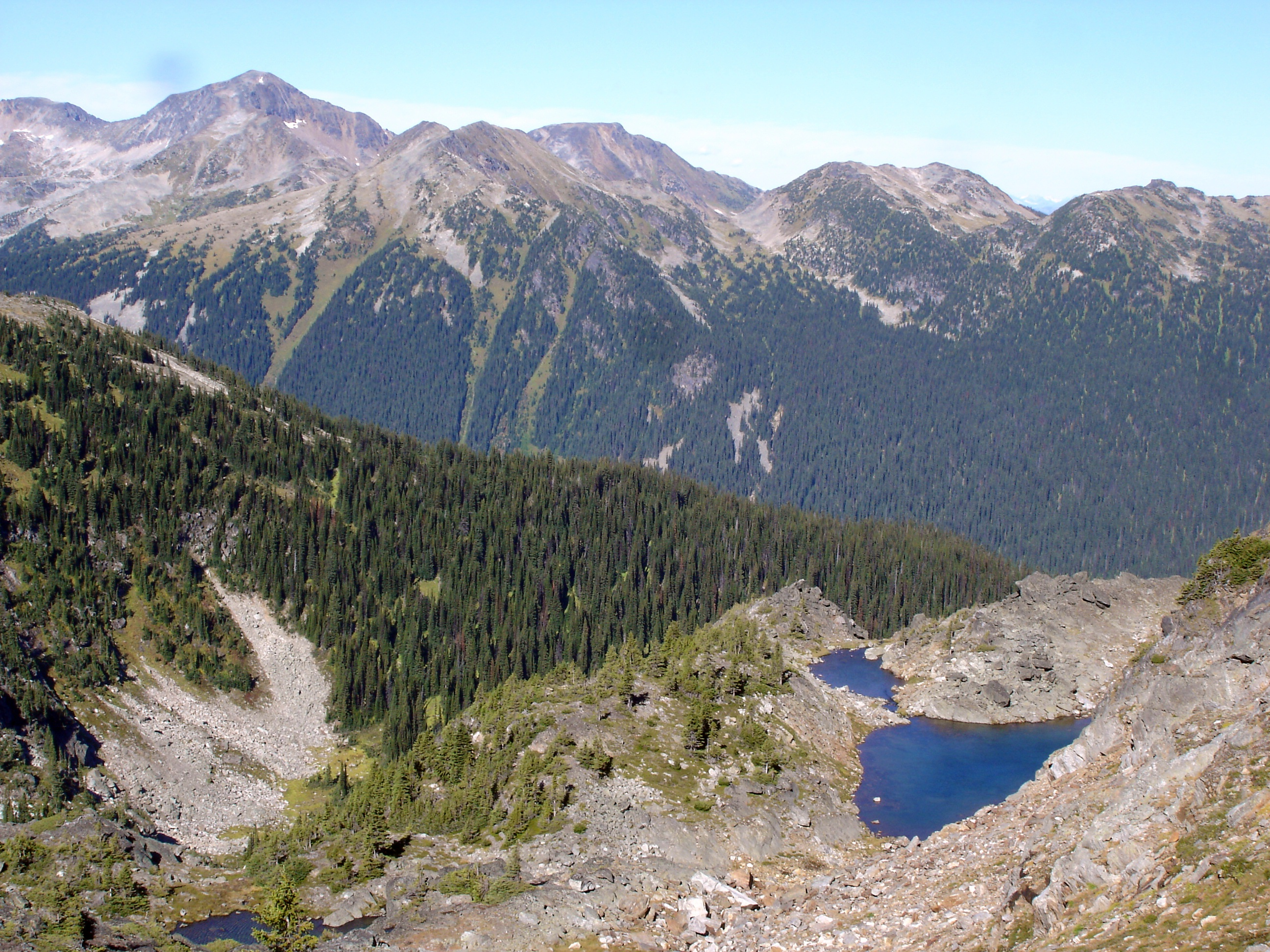 Cirque of Tarns above Caligata Lake. Trophy Mountain behind.